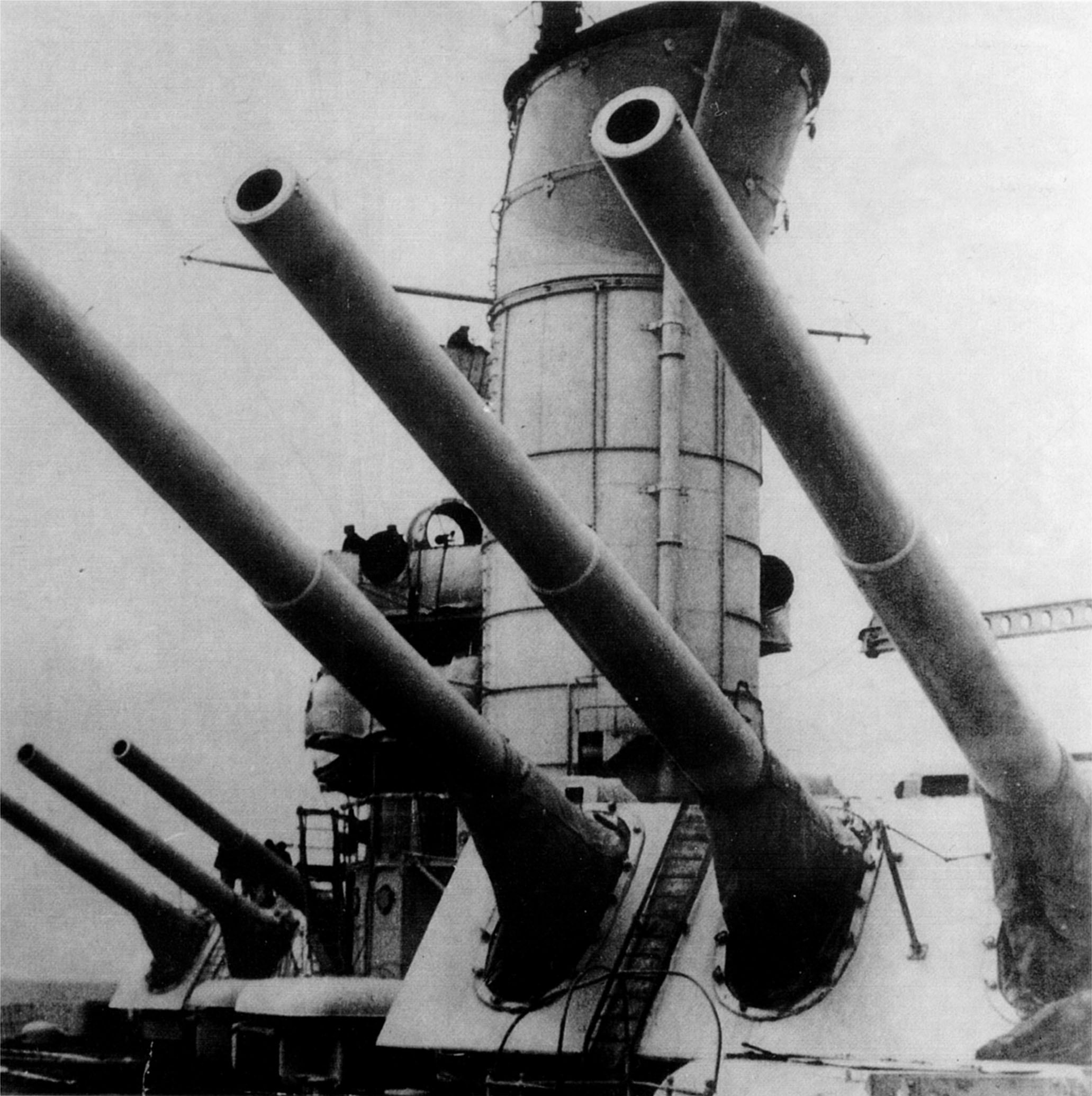 Main guns of the Soviet battleship Parizhskaia Kommuna.